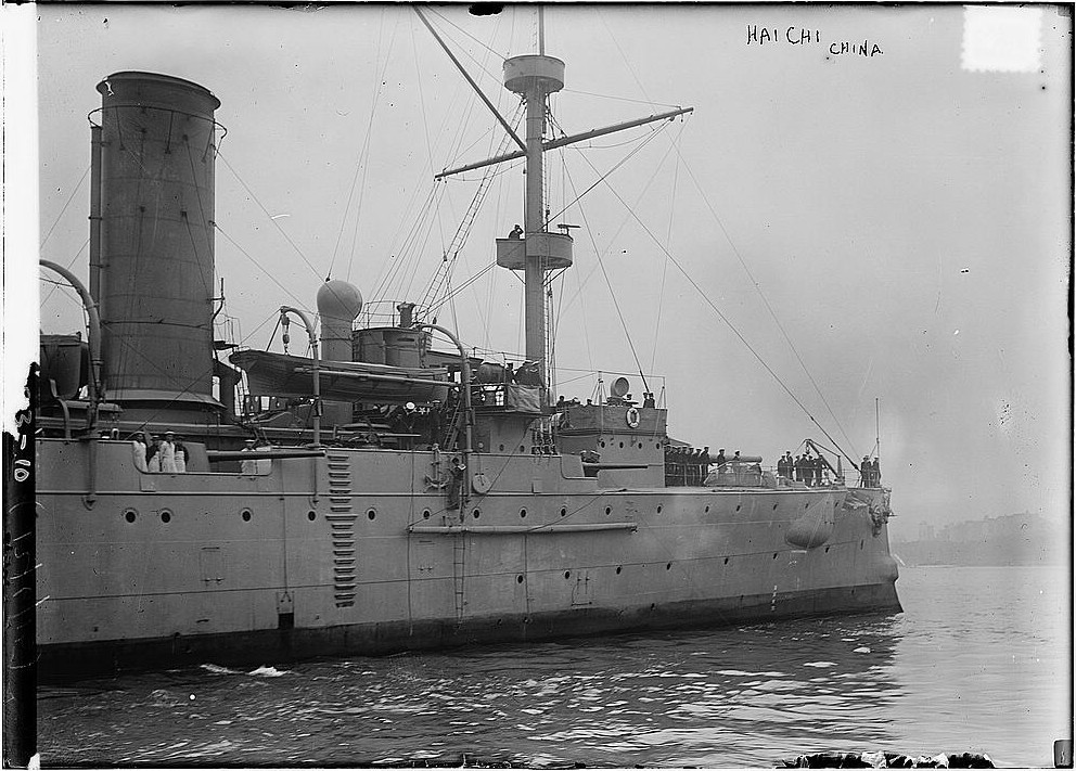 HAI CHI China (LOC) Bain News Service,, publisher. Hai Chi or Hai-Chi China 1911 Sept, 11] 1 negative : glass ; 5 x 7 in. or smaller. Notes: Title from data provided by the Bain News Service on the negative. Date from similar Bain negative: LC-B2-2267-9. Photo shows the visit of the Chinese cruiser Hai-Chi, to New York City in September, 1911. (Source: Flickr Commons project, 2009 and New York Times Sept. 13, 1911) Forms part of: George Grantham Bain Collection (Library of Congress). Subjects: Ships Format: Glass negatives. Repository: Library of Congress, Prints and Photographs Division, Washington, D.C. 20540 USA, General information about the Bain Collection is available at Persistent URL: Call Number: LC-B2- 2293-10